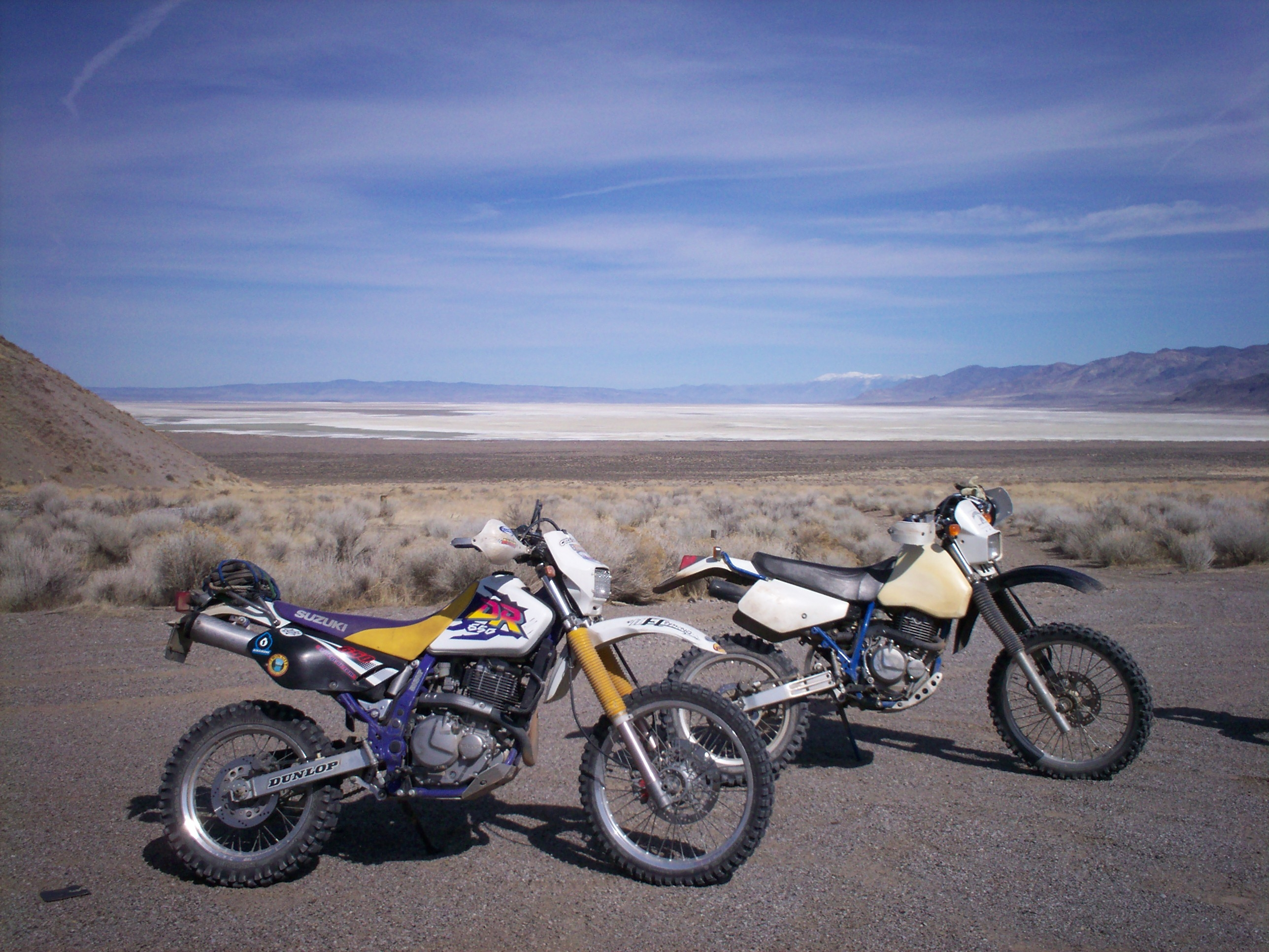 Dual sport motorcycles, Suzuki DR 650, Suzuki DR 350